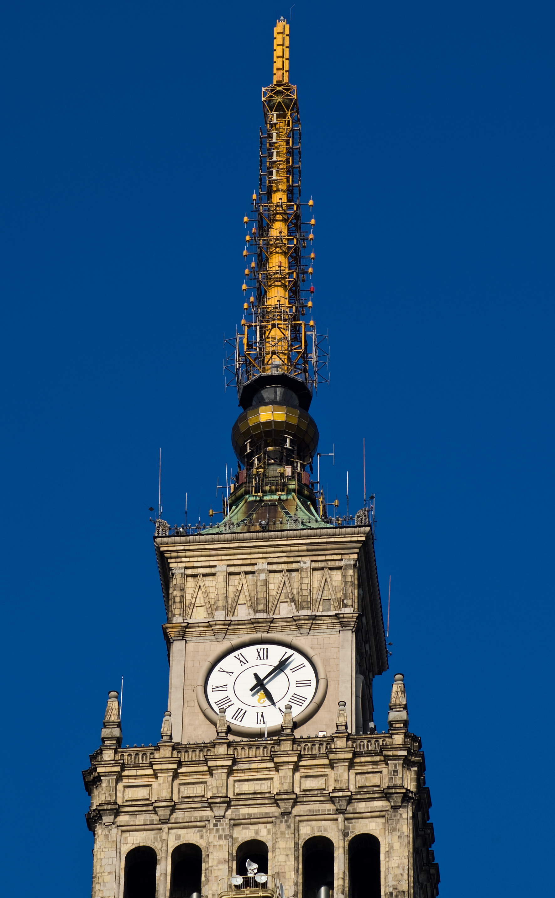 Tower of the Palace of Culture and Science in Warsaw.